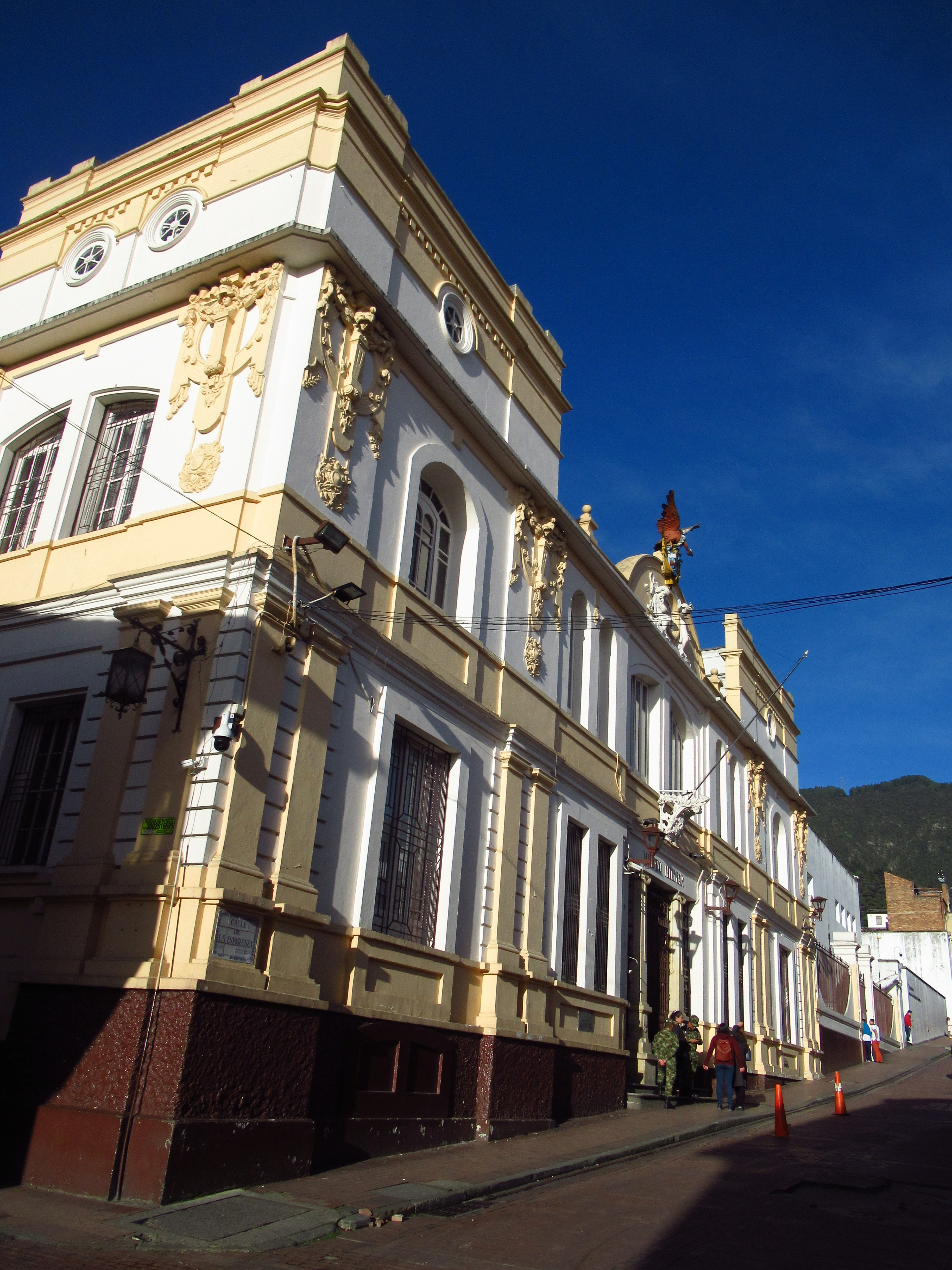 Bogotá